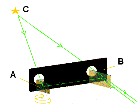 Optical rangefinder